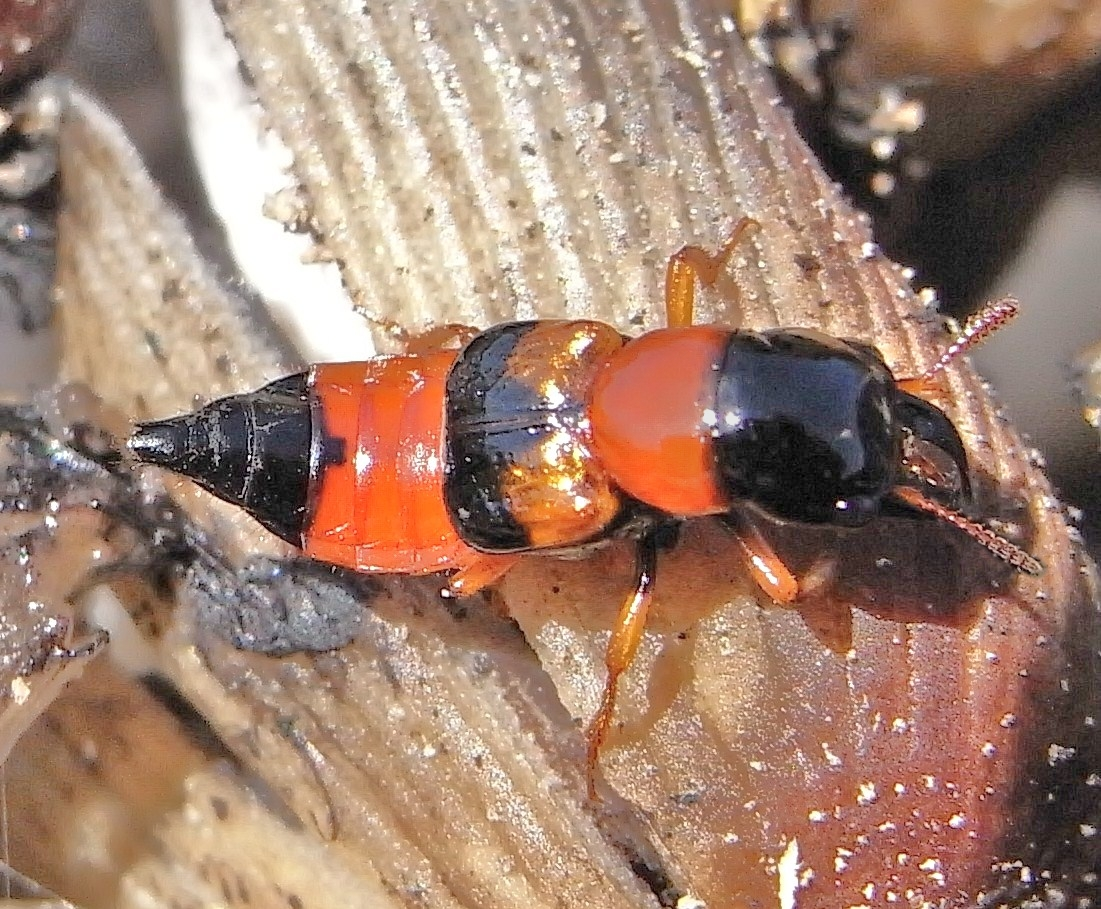 Oxyporus rufus from Hungary, near Lenti at 2010-04-29Ricoh R8